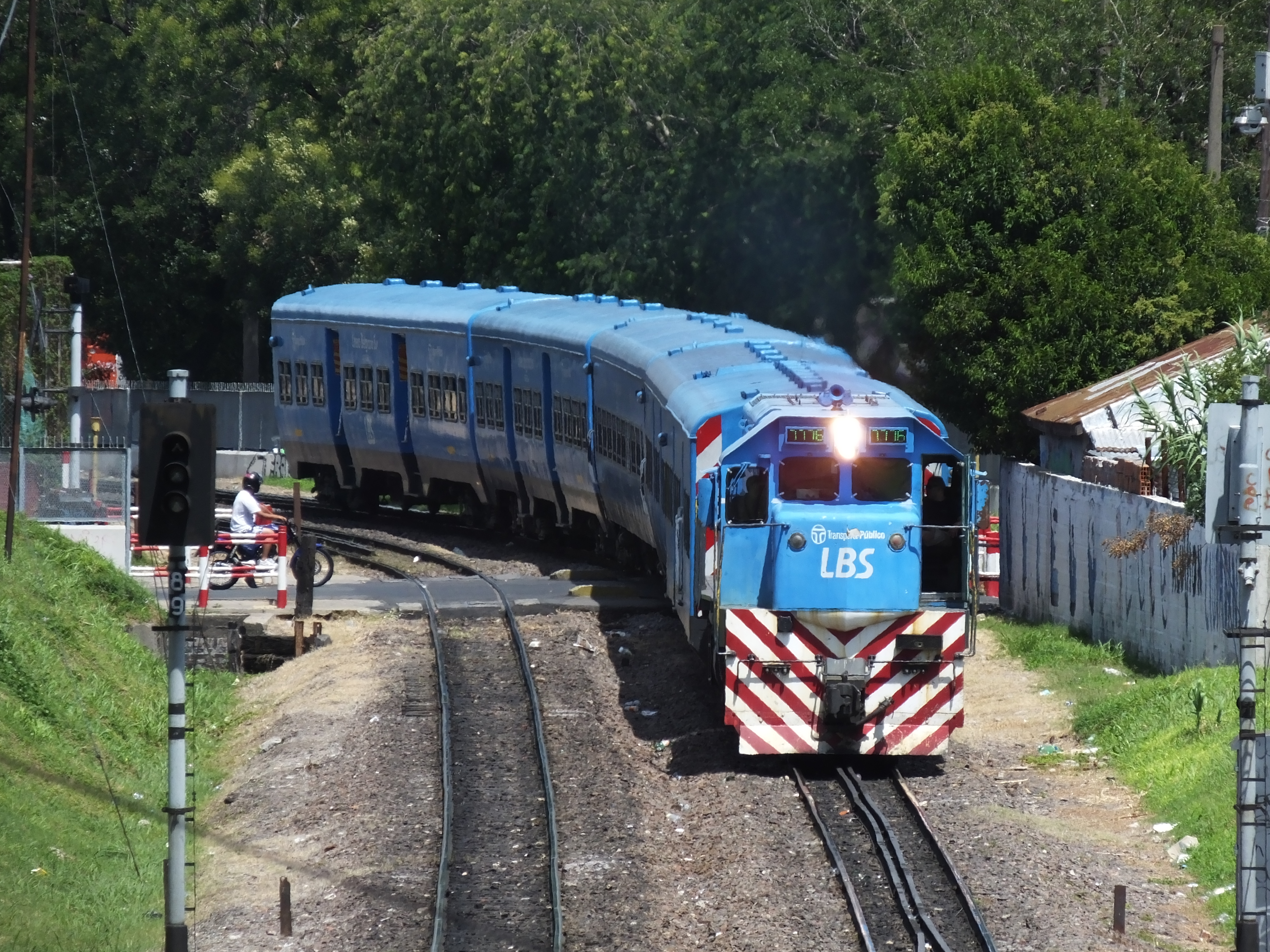 A Belgrano Sur Line EMD G22 locmotive carrying passenger cars.